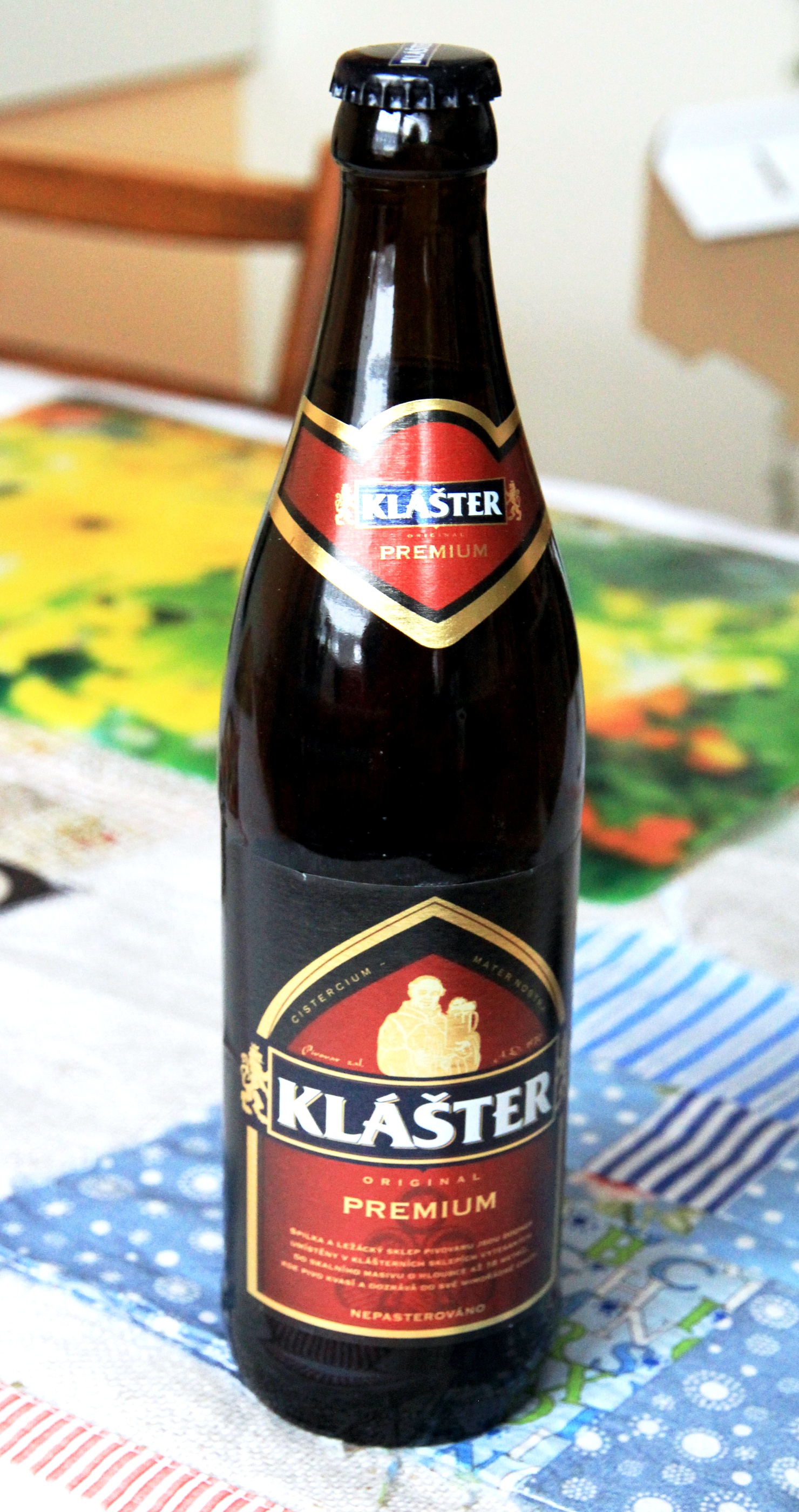 Bottle of Czech beer Klášter Premium from brewery in Klášter Hradiště nad Jizerou, Czech Republic